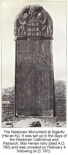 Photo of Nestorian Stele, Xi'an, as seen ca. 1892, near the (former) Buddhist temple Chongren in Xi'an. As Keevak (2008) explains (p. 6), the thing seen at the bottom is the head of a bixi tortoise onto which the stele was, presumably, installed after being unearthed in the 17th century.